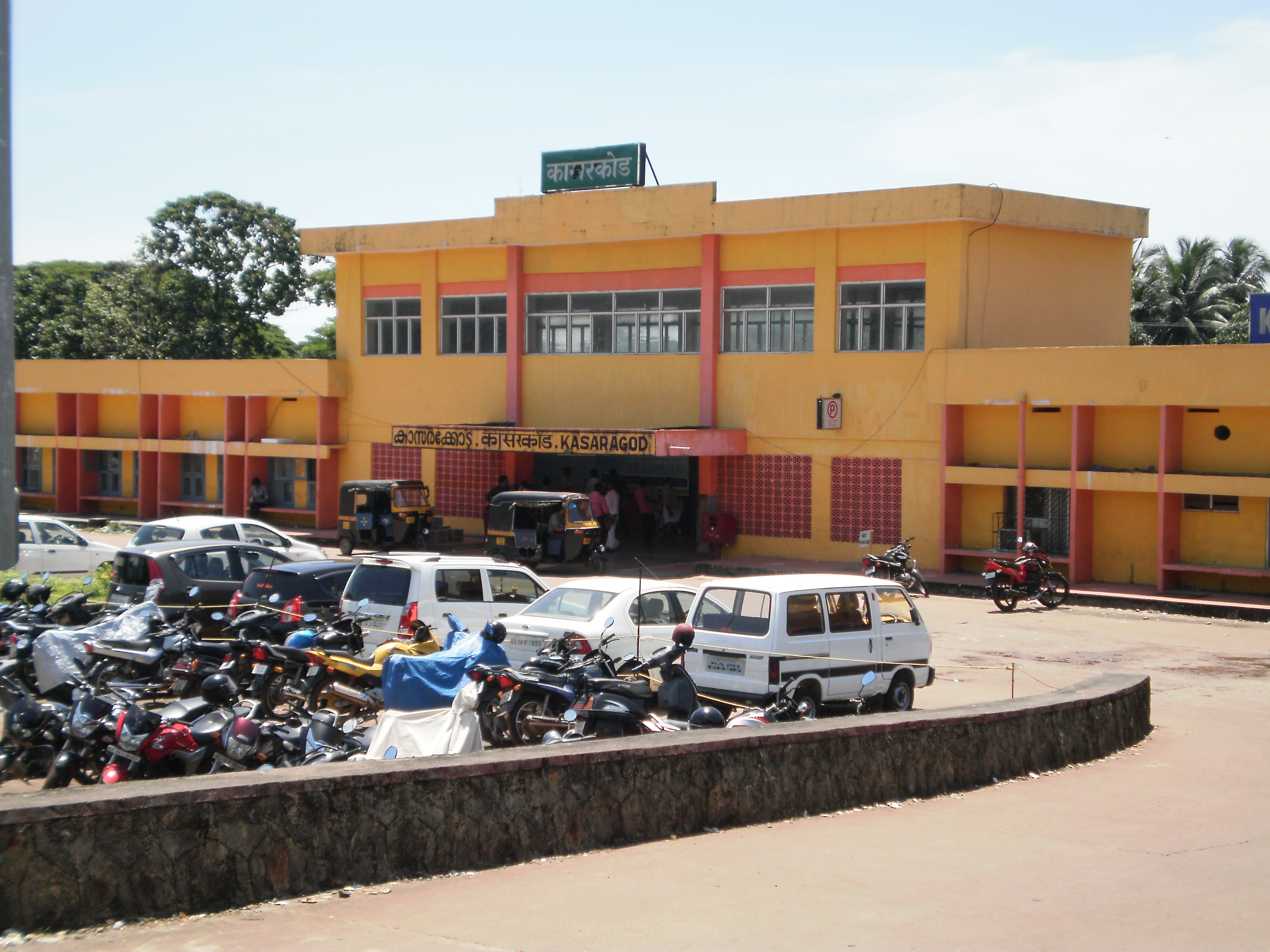 A view of the Kasaragod Railway Station